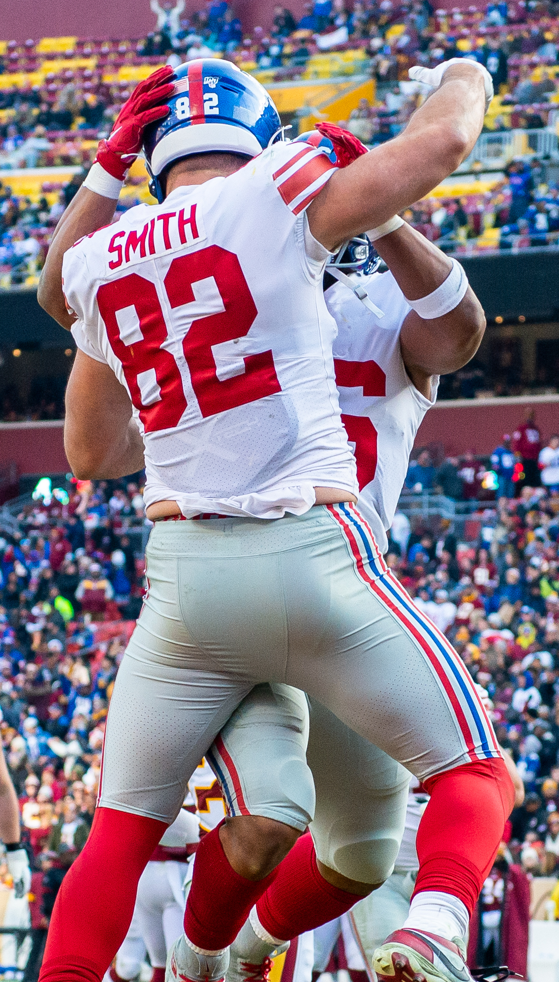 In 2019